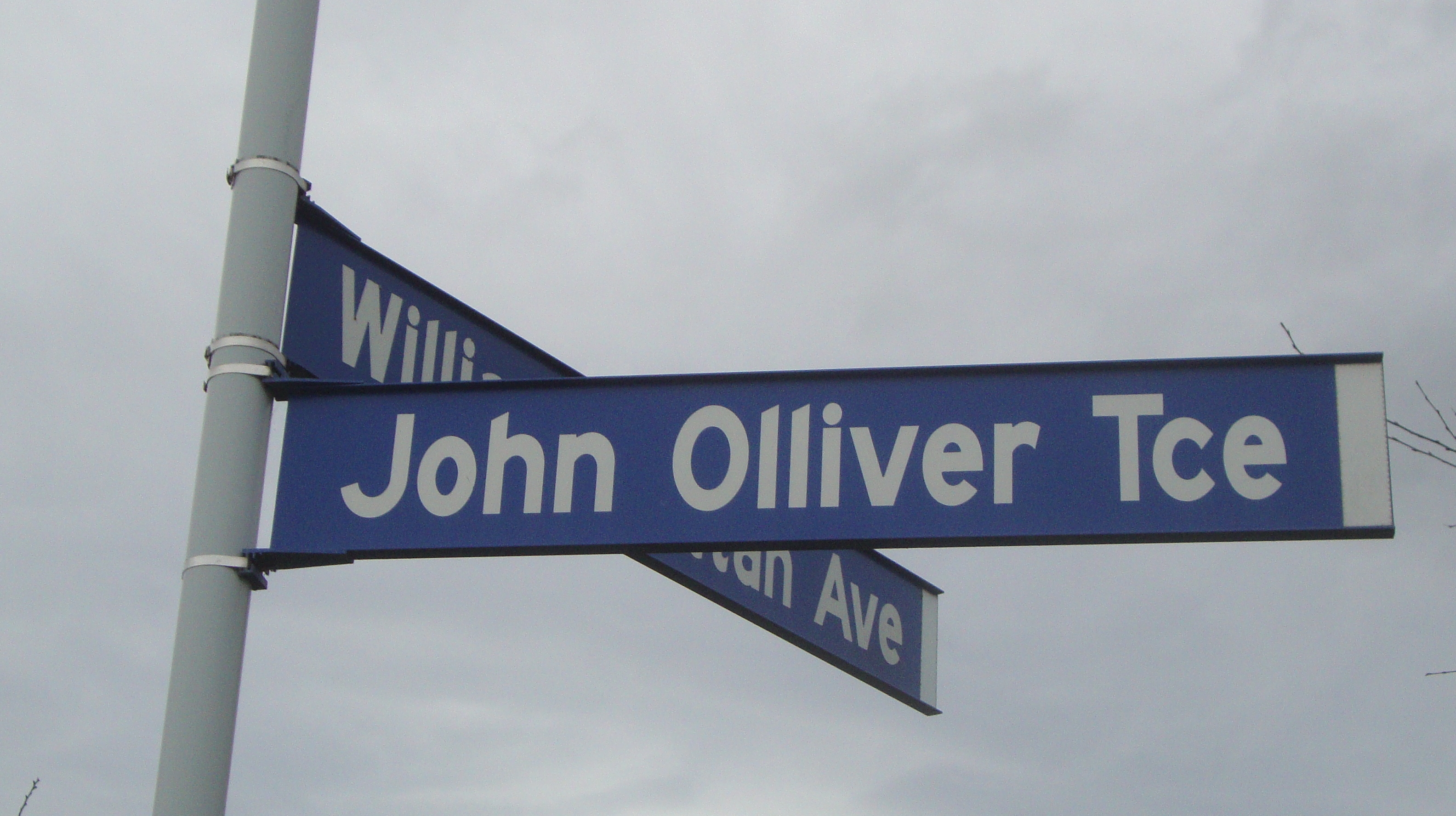 John Olliver Tce in Halswell, Christchurch, named after John Ollivier (note the spelling mistake).